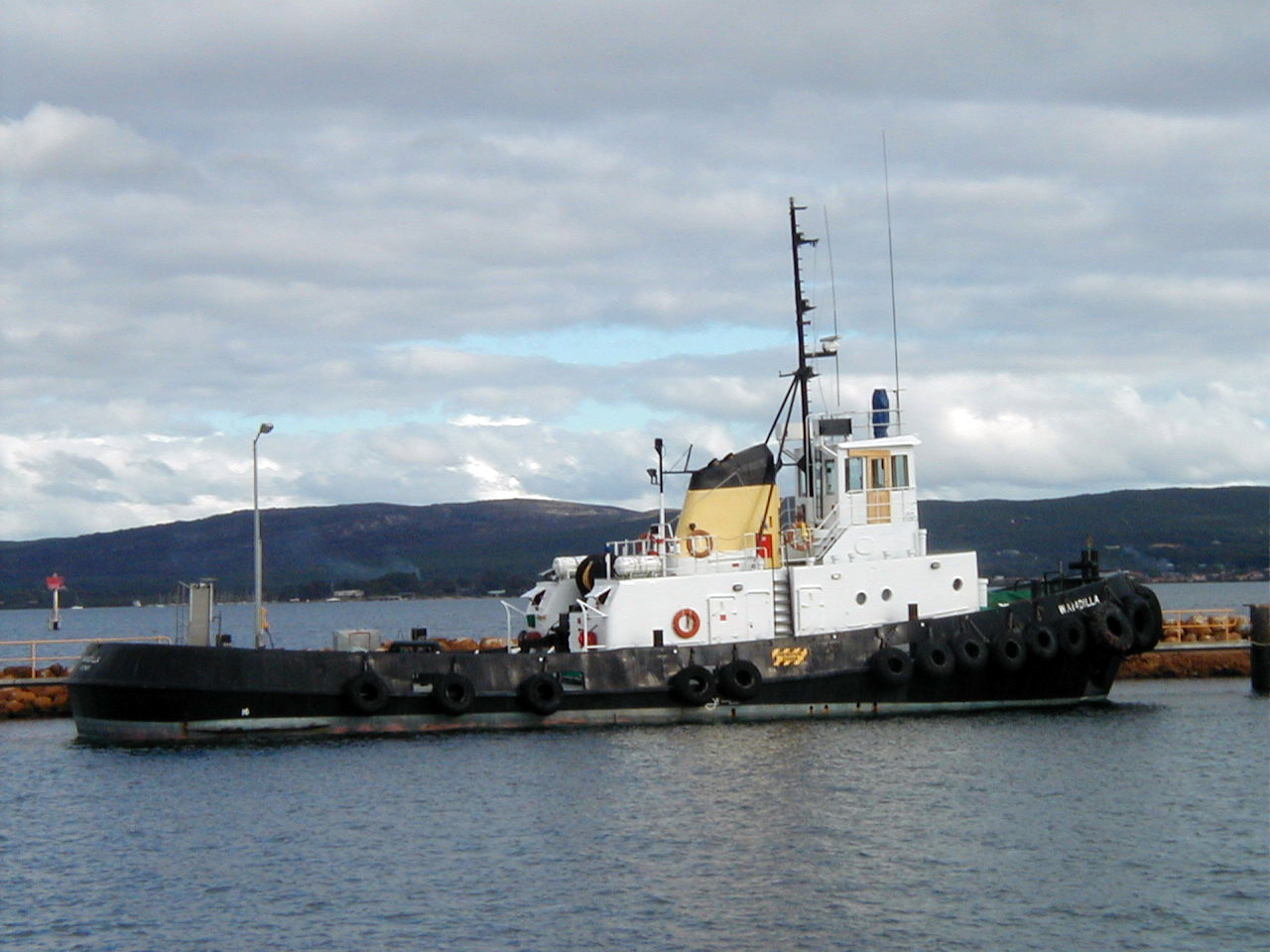 Tugboat "Wandilla" - Albany, Western Australia.